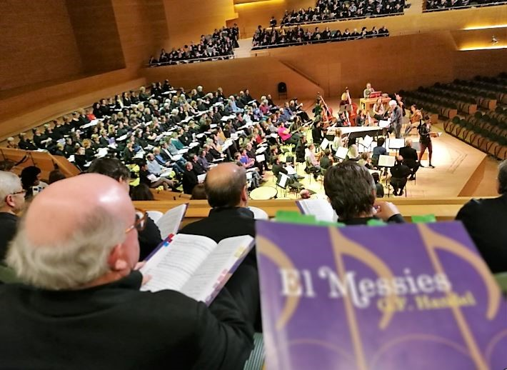 L'assaig general de l'oratori es va fer a la mateixa sala on havia de tenir lloc el concert.